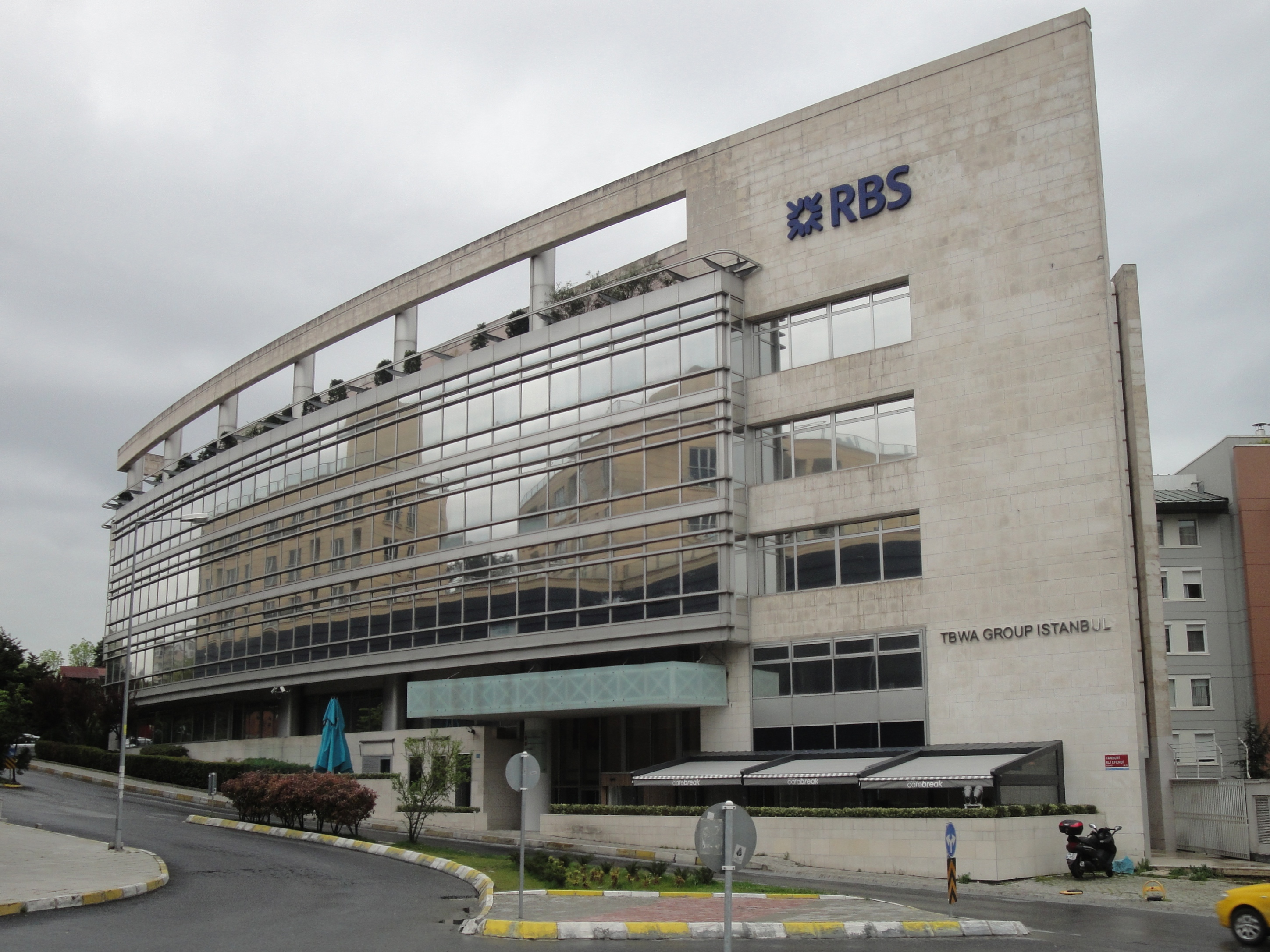 The Royal Bank of Scotland N.V. (RBS) Head Office Istanbul